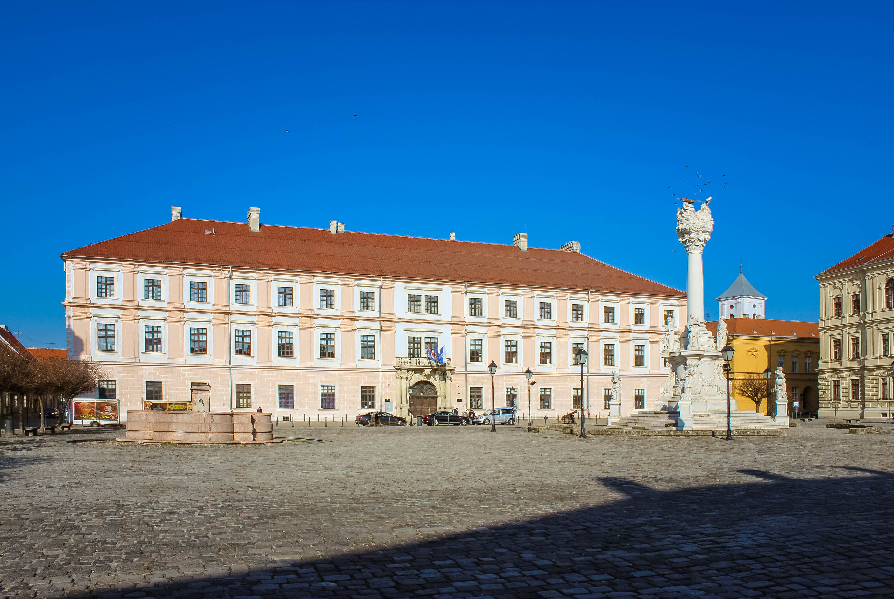 Square